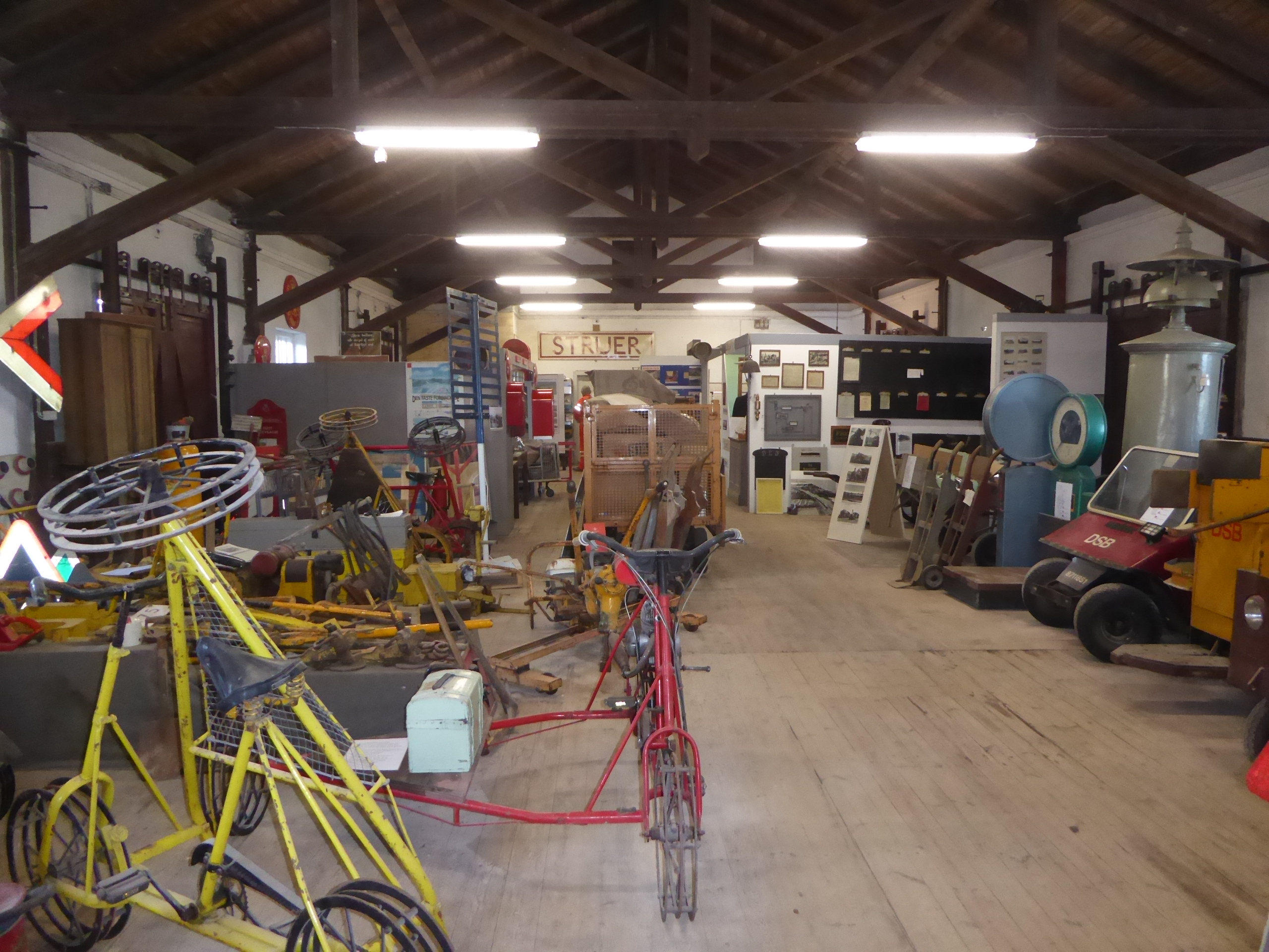 Interior of the railway museum Midt- og Vestjyllands Jernbanemuseum in Struer in Denmark.